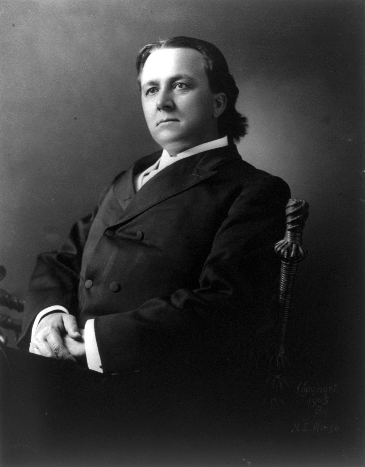 James K. Vardaman, Governor of Mississippi